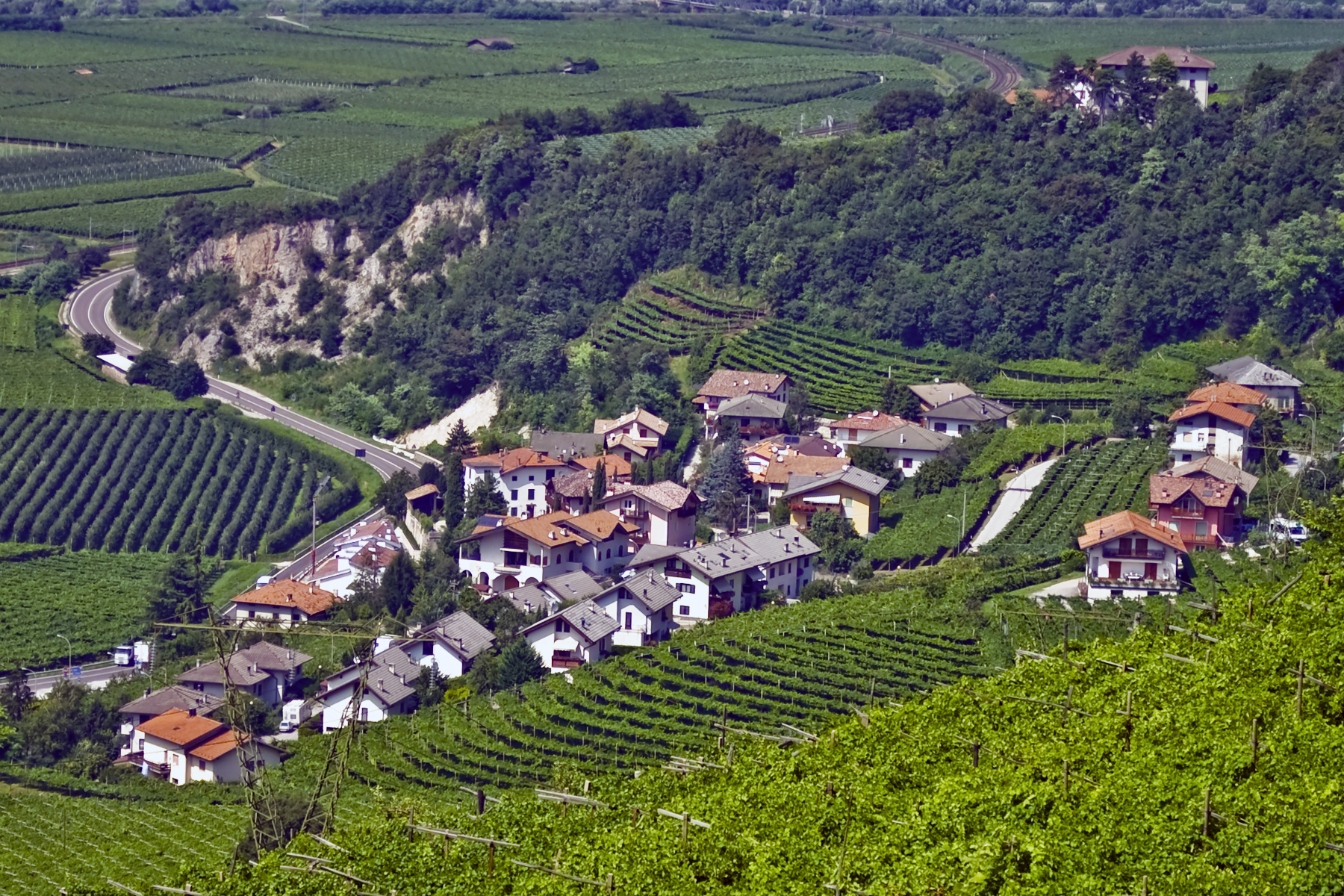 Panoramic view of "Sorni di Lavis" near Lavis (Trento) Italy